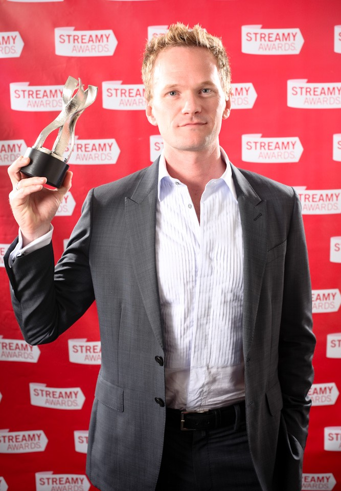 Neil Patrick Harris at the 1st Streamy Awards in 2009.